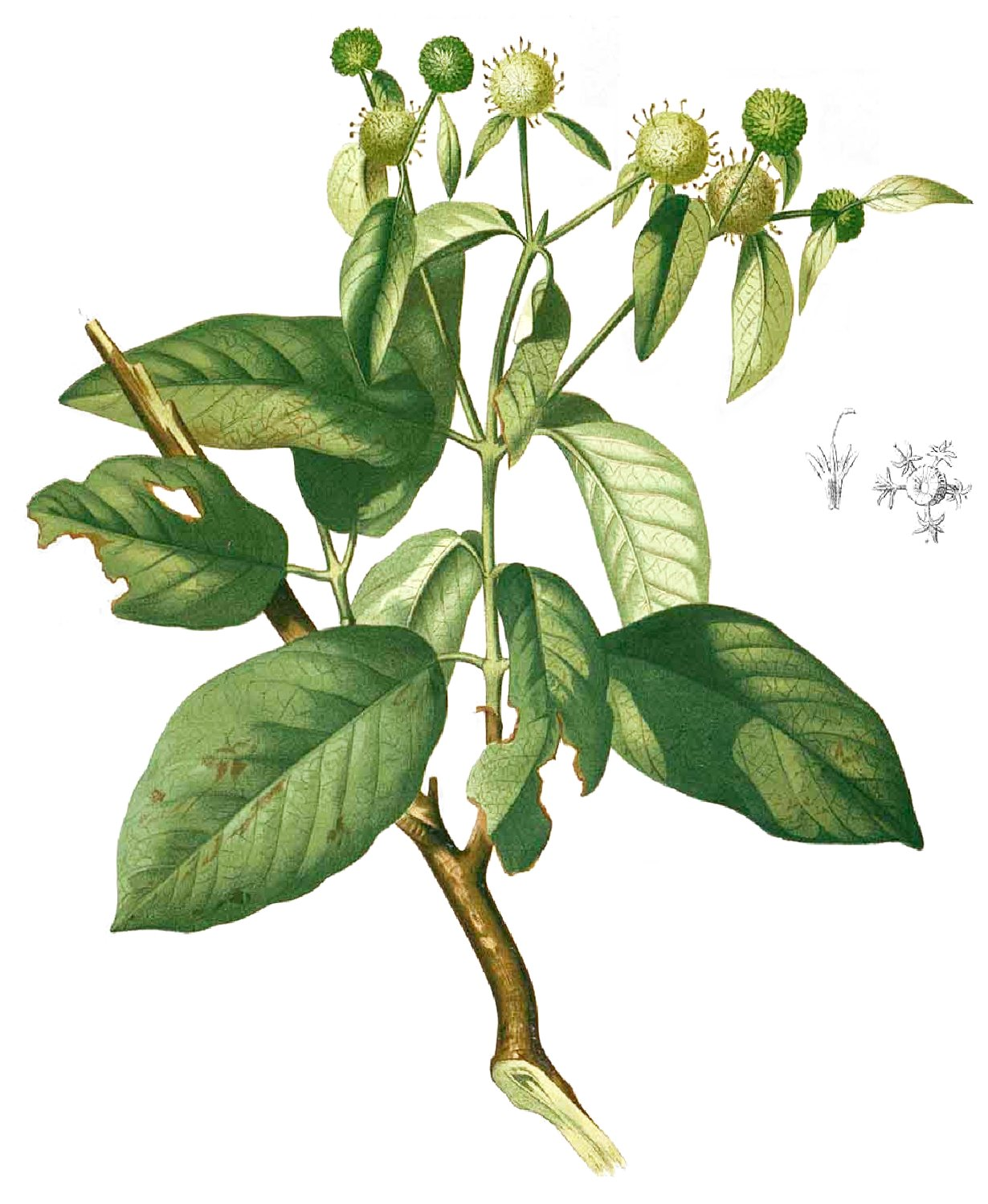 Plate from book